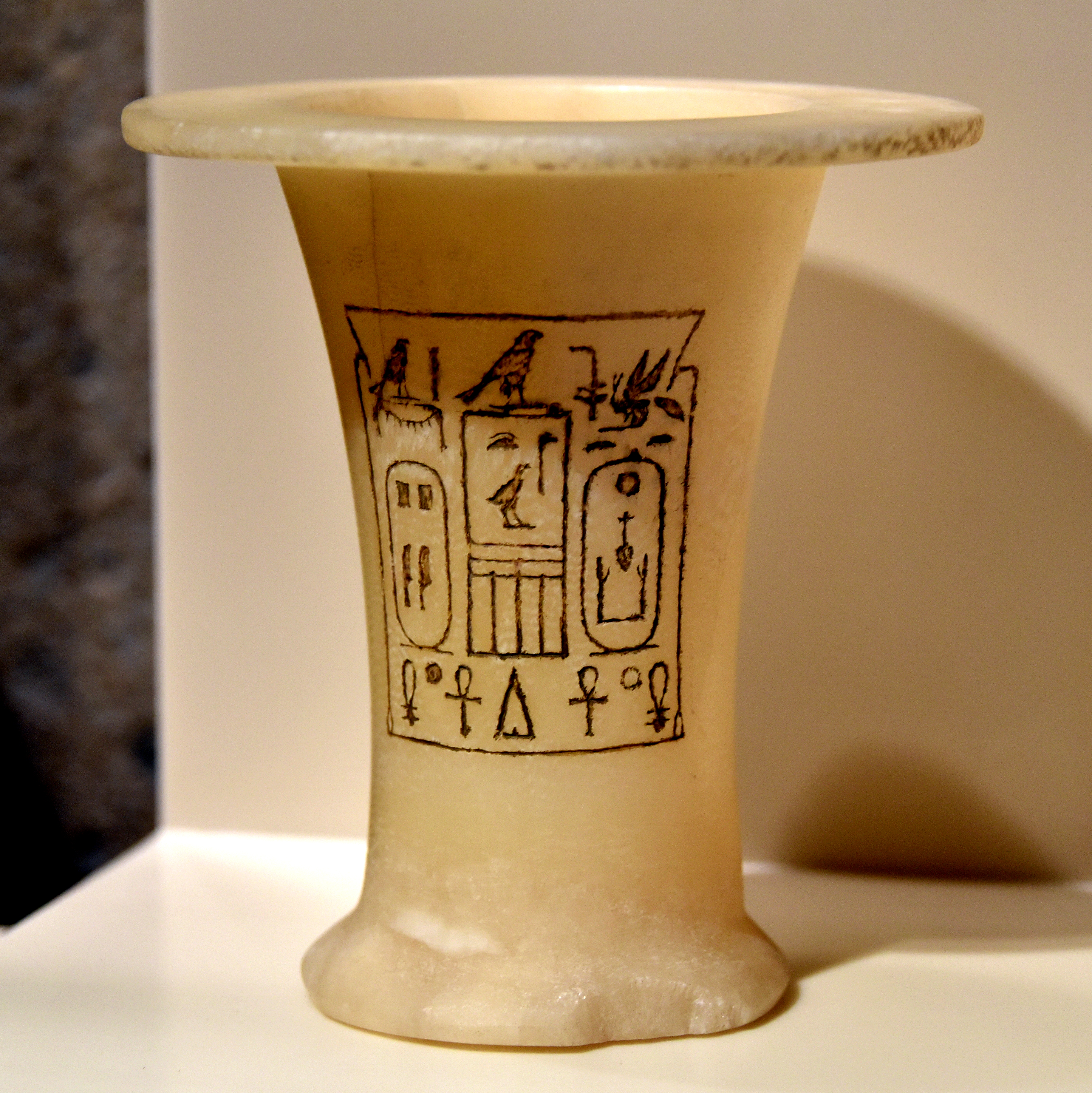 Calcite-alabaster jar with the cartouches of pharaoh Pepi II, from Egypt. Old Kingdom, 6th Dynasty, 2279-2219 BCE. Neues Museum, Berlin, Germany.